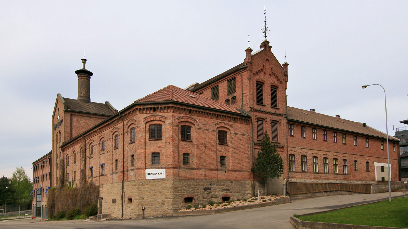 Hamar Brewery, Hamar, Norway